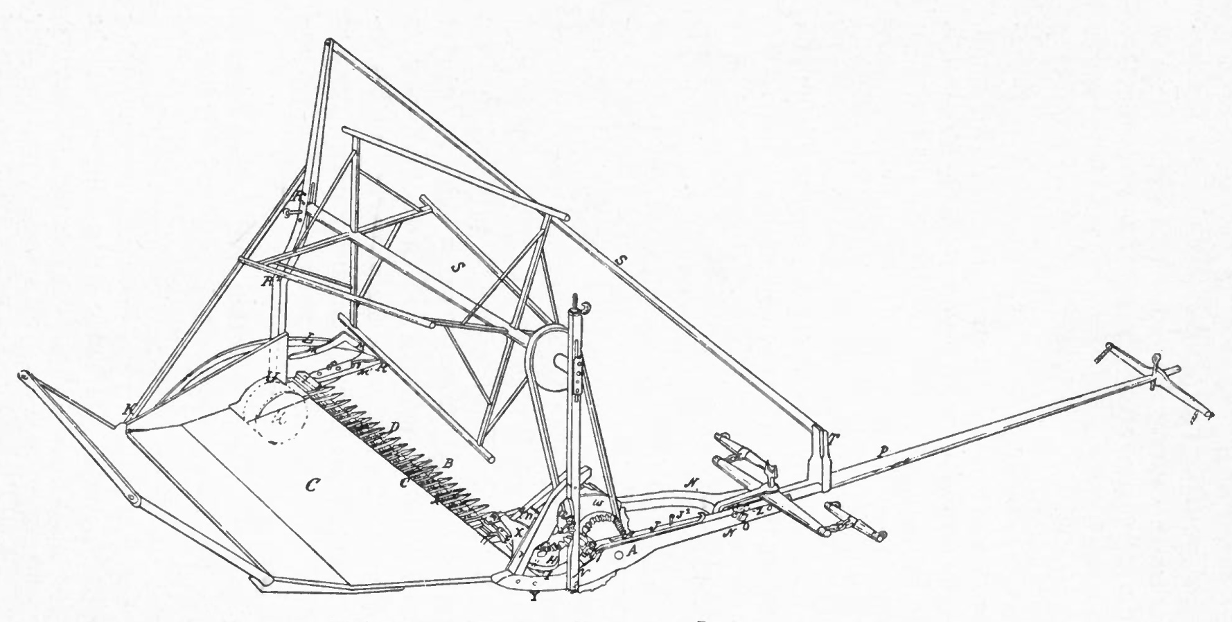 Sketch from 1845 patent of an improved grain reaper by Cyrus Hall McCormick.